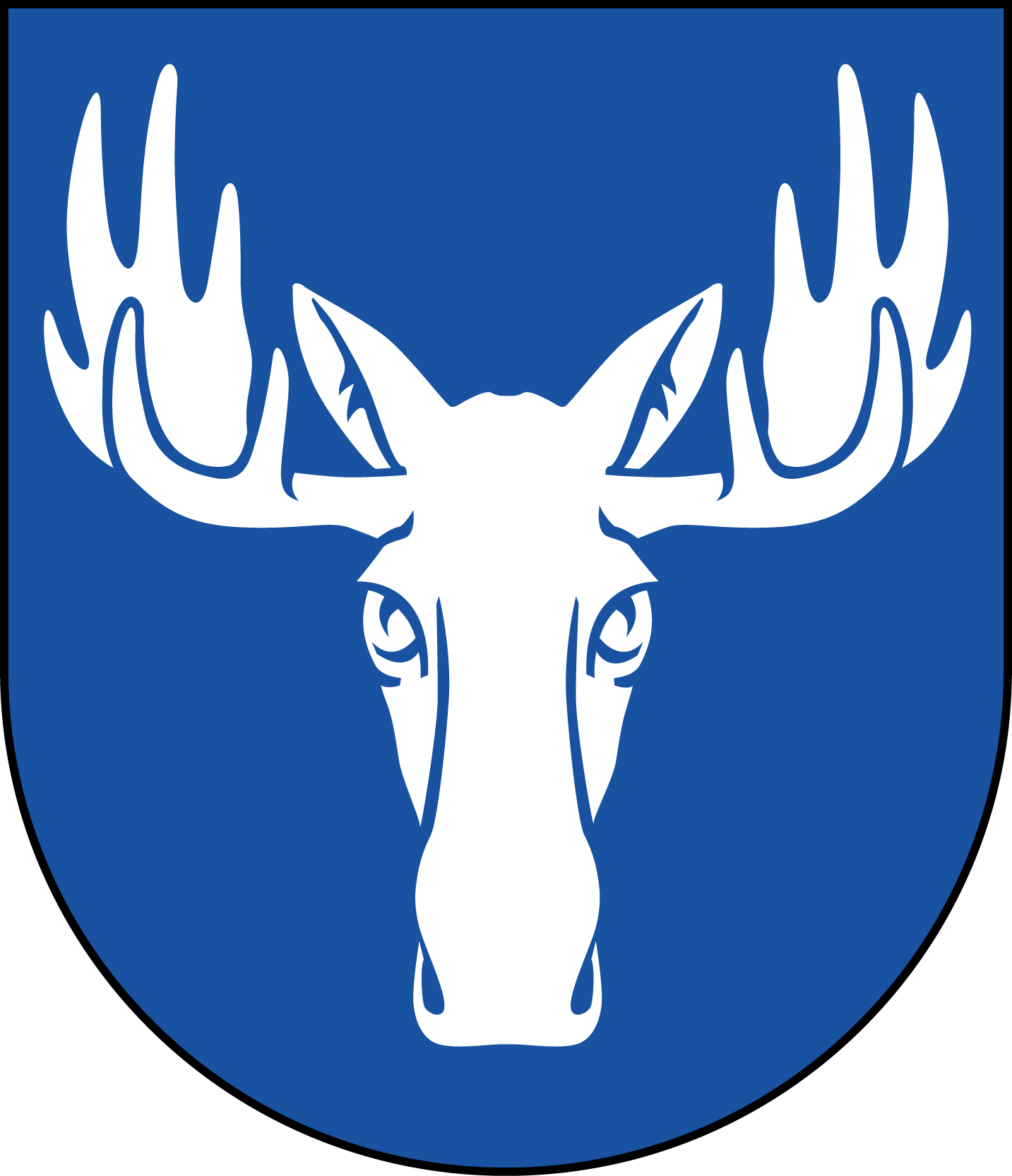 Coat of arms of the municipality of Östersund, Sweden. Painted by Vladimir A. Sagerlund when he was the heraldic artist at the National Archives of Sweden (Riksarkivet). This representation of a coat of arms is potentially different from the one used by the armiger (municipality or organisation) in question. = ⇑“Sable, a lionrampant or” This coat of arms was drawn based on its blazon which – being a written description – is free from copyright. Any illustration conforming with the blazon of the arms is considered to be heraldically correct. Thus several different artistic interpretations of the same coat of arms can exist. The design officially used by the armiger is likely protected by copyright, in which case it cannot be used here.Individual representations of a coat of arms, drawn from a blazon, may have a copyright belonging to the artist, but are not necessarily derivative works. Further information: Commons:Coats of arms and Template:Coa blazon